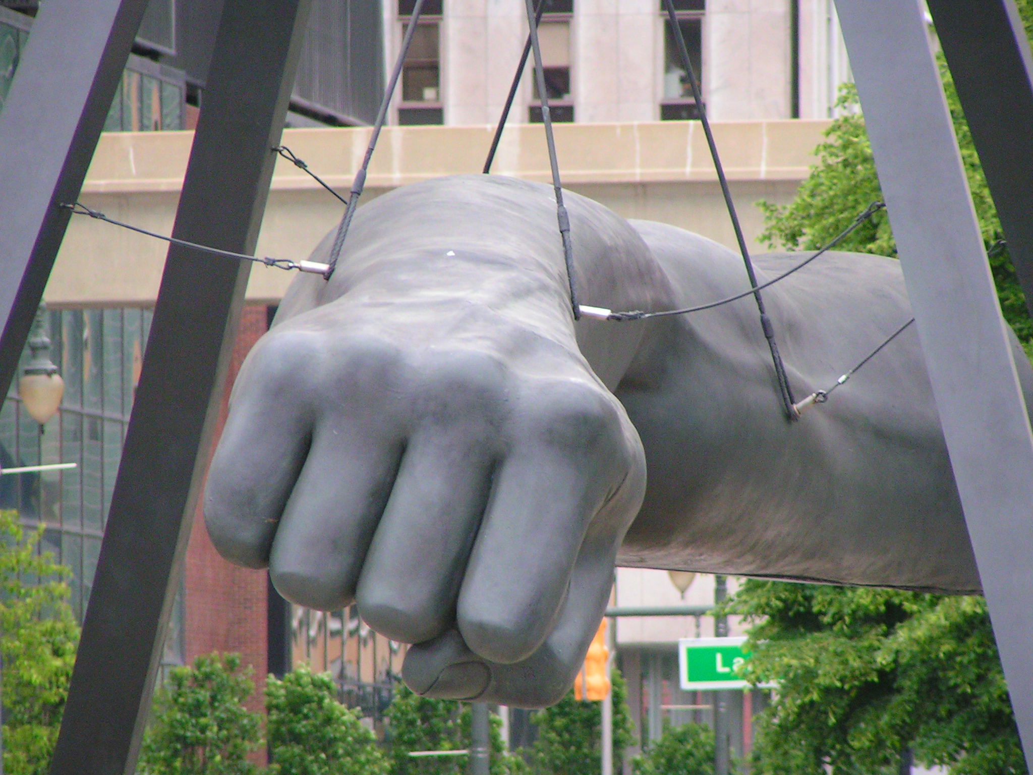 Fist of a Champion – Detroit's Monument to Joe Louis